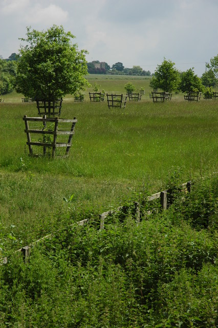 View to Stowe Castle Stowe Castle is just visible in the distance in the trees, it is a folly or eyecatcher, thought to have been designed by James Gibbs in the 1730s.